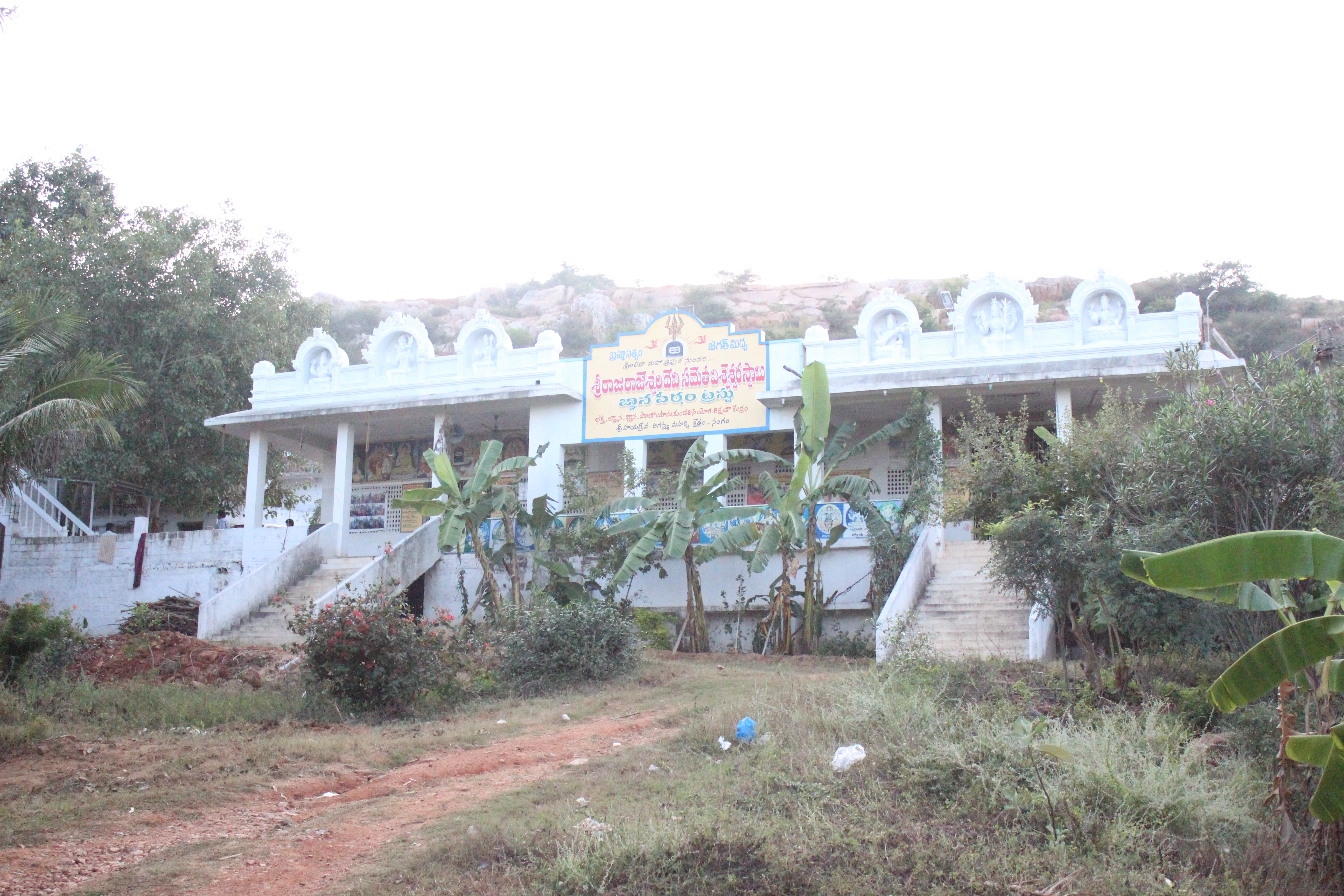 sangam temples